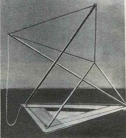 Kārlis Johansons' c.1920 "Study in Balance" is a proto-tensegrity sculpture. David Georges Emmerich (1988) reported that the first proto-tensegrity system, called "Gleichgewichtkonstruktion" ("Equilibrium-structure"), was created by Kārlis Johansons in 1920. It was a structure of three bars and seven cords with an eighth cable without tension that interactively altered the configuration while maintaining equilibrium. This configuration was very similar to his own proto-system invention, the "Elementary Equilibrium", with three struts and nine cables. Regardless, the absence of pre-stress, a key characteristic of tensegrity systems, does not allow this particular Kārlis Johansons “sculpture-structure” to be considered one of the first tensegrity structures. Kārlis Johansons is also known as: Kārlis Johansons (Latvian), birth Карл Вольдемарович Иогансон or Karl Voldemarovich Ioganson (Russian), partial residence Karlis Johansons or Karl Johannson (English) Karl Ioganson (German) Karel Ioganson (Greek) sometimes translated by hand or bot as Iogansons, Johanson, Johannson, Johanssons, Johannsons, Johanssons, Johnsons, or Carl